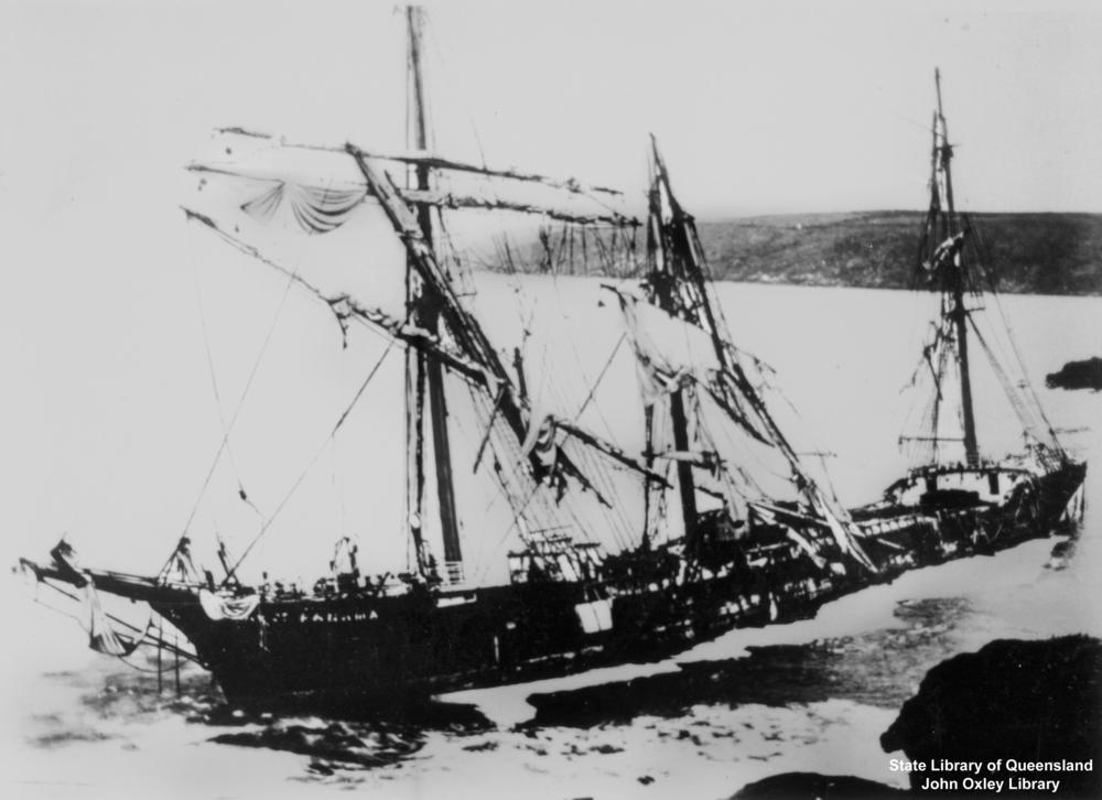 Bay of Panama (ship) was built in Belfast in 1883. It was wrecked off Nare Point, Cornwall, on 10 March, 1891 (Description supplied with photograph).